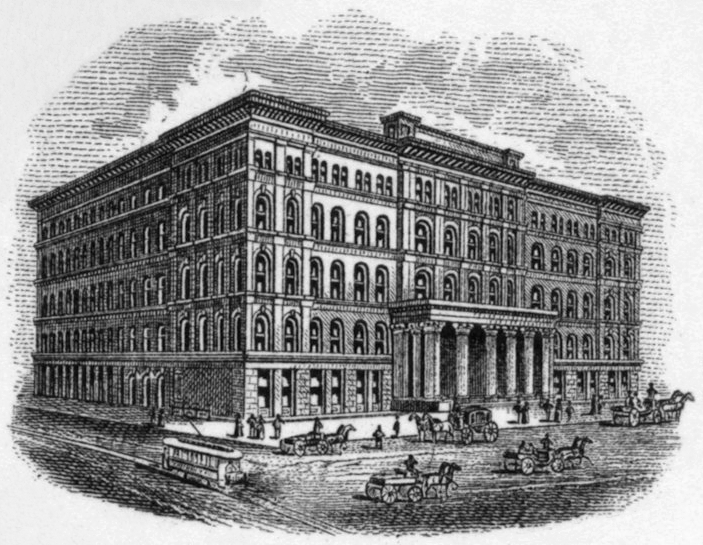 "ILLUS, PICTURE OF HOTEL;"